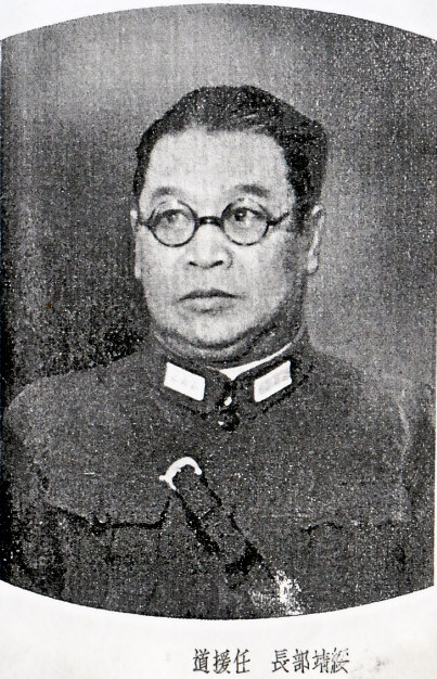 Ren Yuandao (Jen Yüan-tao) (1890 or 1891 - 1980)